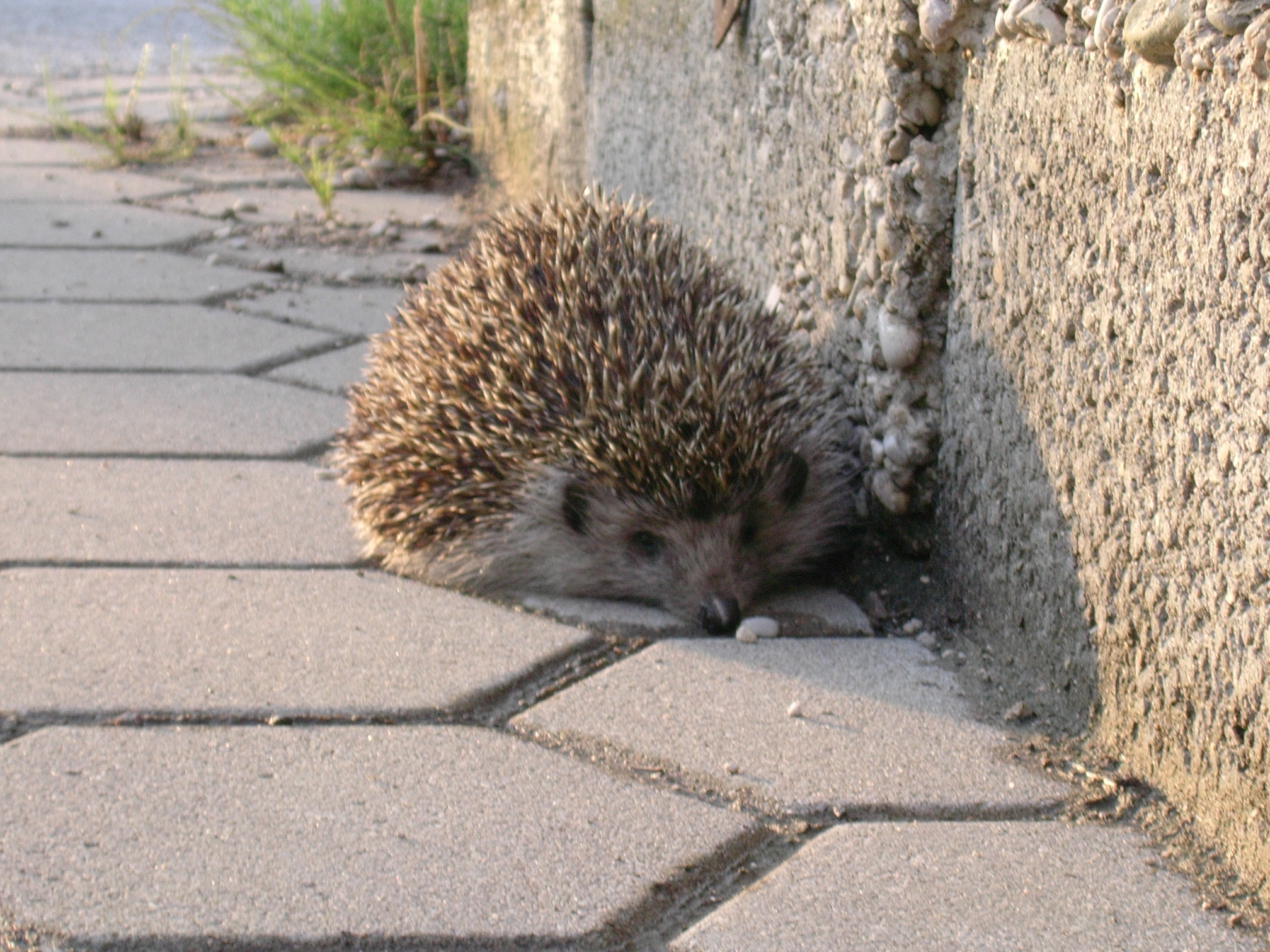 hedgohog near wall